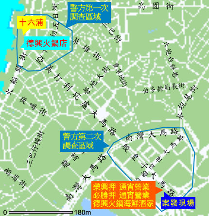 A map shows how the Macau Police could find out the position of Va Iong Building Fire Reference: According to the news from Macaodaily in 13th October, 2004.